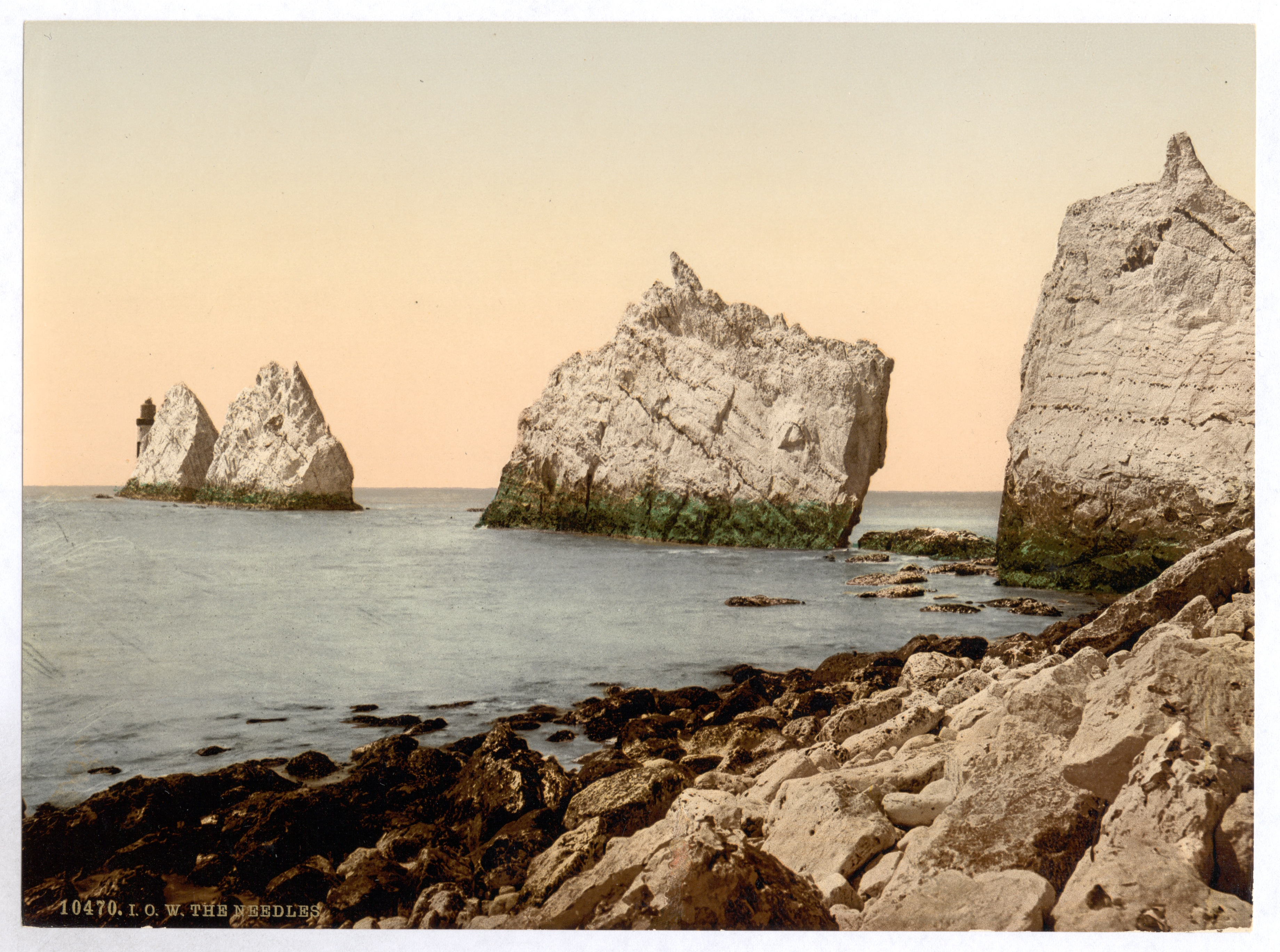 Print no. "10470".; Title from the Detroit Publishing Co., Catalogue J-foreign section, Detroit, Mich. : Detroit Publishing Company, 1905.; Forms part of: Views of England in the Photochrom print collection.